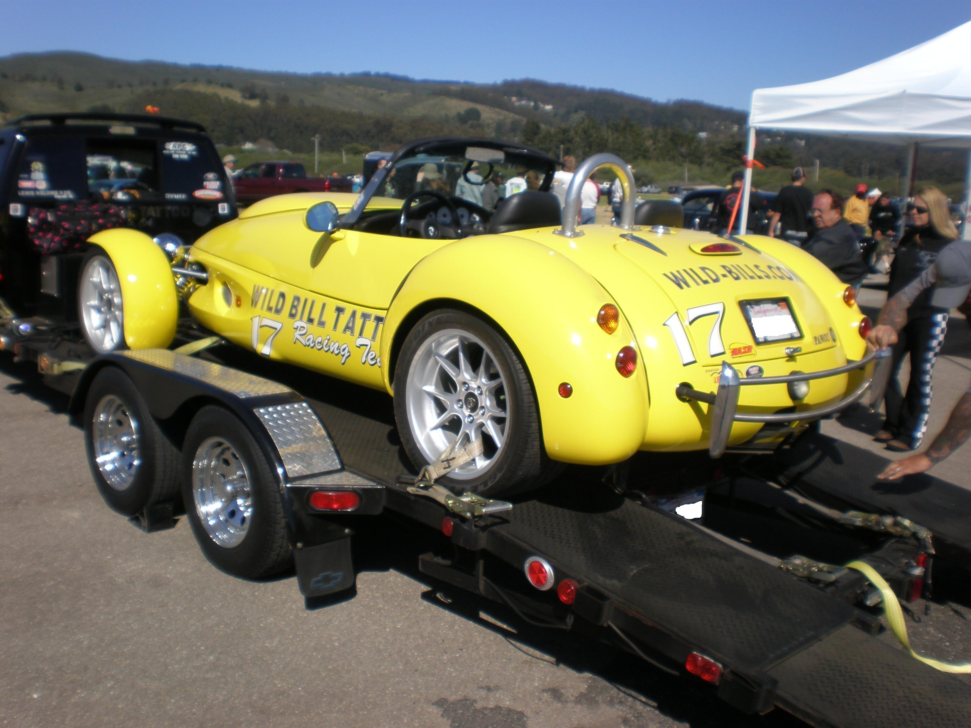 The rear of a 2002 Panoz AIV roadster at the Pacific Coast Dream Machines vehicle show at the Half Moon Bay Airport in Half Moon Bay, California.